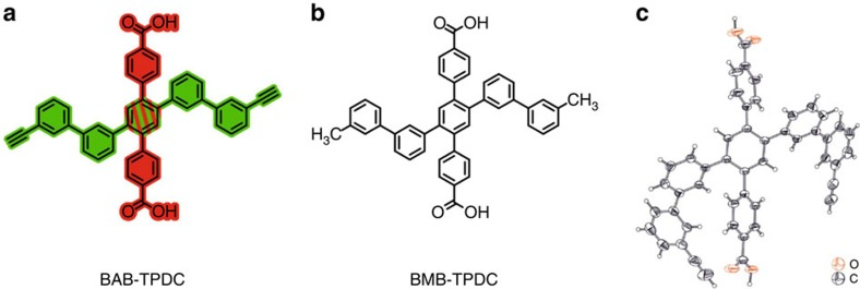 Structure of organic linkers. ( a ) Chemical structure of quadritopic (4t) organic linker BAB-TPDC (bis(acetylene-biphenyl)-terphenyl di carboxylic acid). ( b ) Chemical structure of the ditopic linker BMB-TPDC (bis(methyl-biphenyl)-terphenyl di carboxylic acid). ( c ) Solid state structure of BAB-TPDC determined by X-ray crystallography (ellipsoids plotted at a 50% probability level).